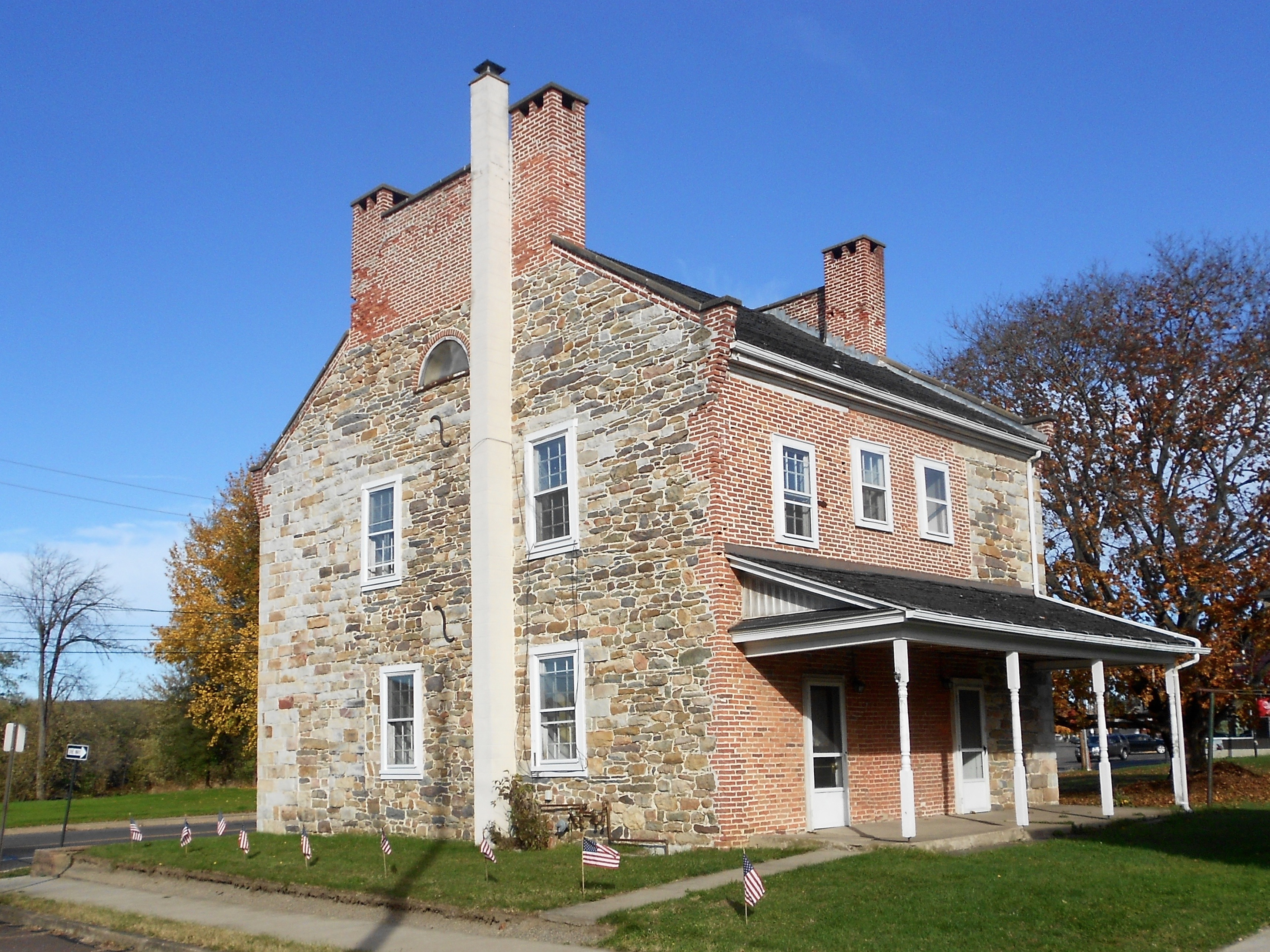 House in Nescopeck, Pennsylvania on 3rd Street (PA 93) and Cooper St. In front of the empty lot next door is a Pennsylvania State Historical Marker (PHMC) saying that Peter Fredrick Rothermel, a painter, was born in the town. I don't believe that means he was born in this house, but it is a nice old house